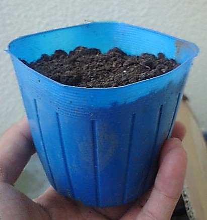 A blue, soft plastic pot (for planting) with soil.